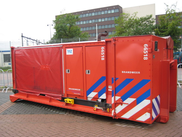 Dutch fire watertransport unit with pump, contains 1000 meters of 150mm hose and a submersible pump with a maximaum capacity of 7500 l/min